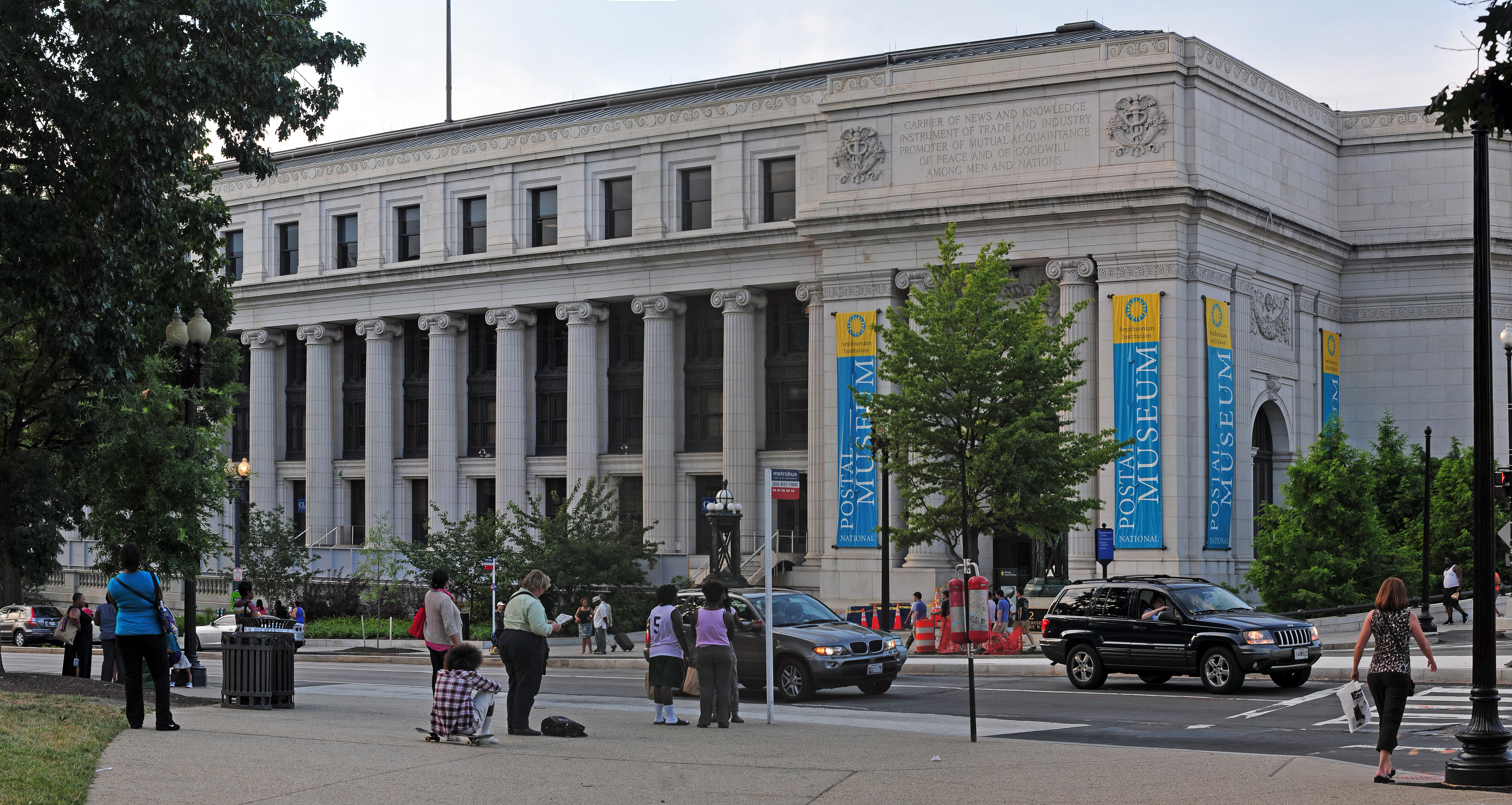 Postal Museum in Washington D.C. The making of this work was supported by Wikimedia Austria. For other files made with the support of Wikimedia Austria, please see the category Supported by Wikimedia Österreich.